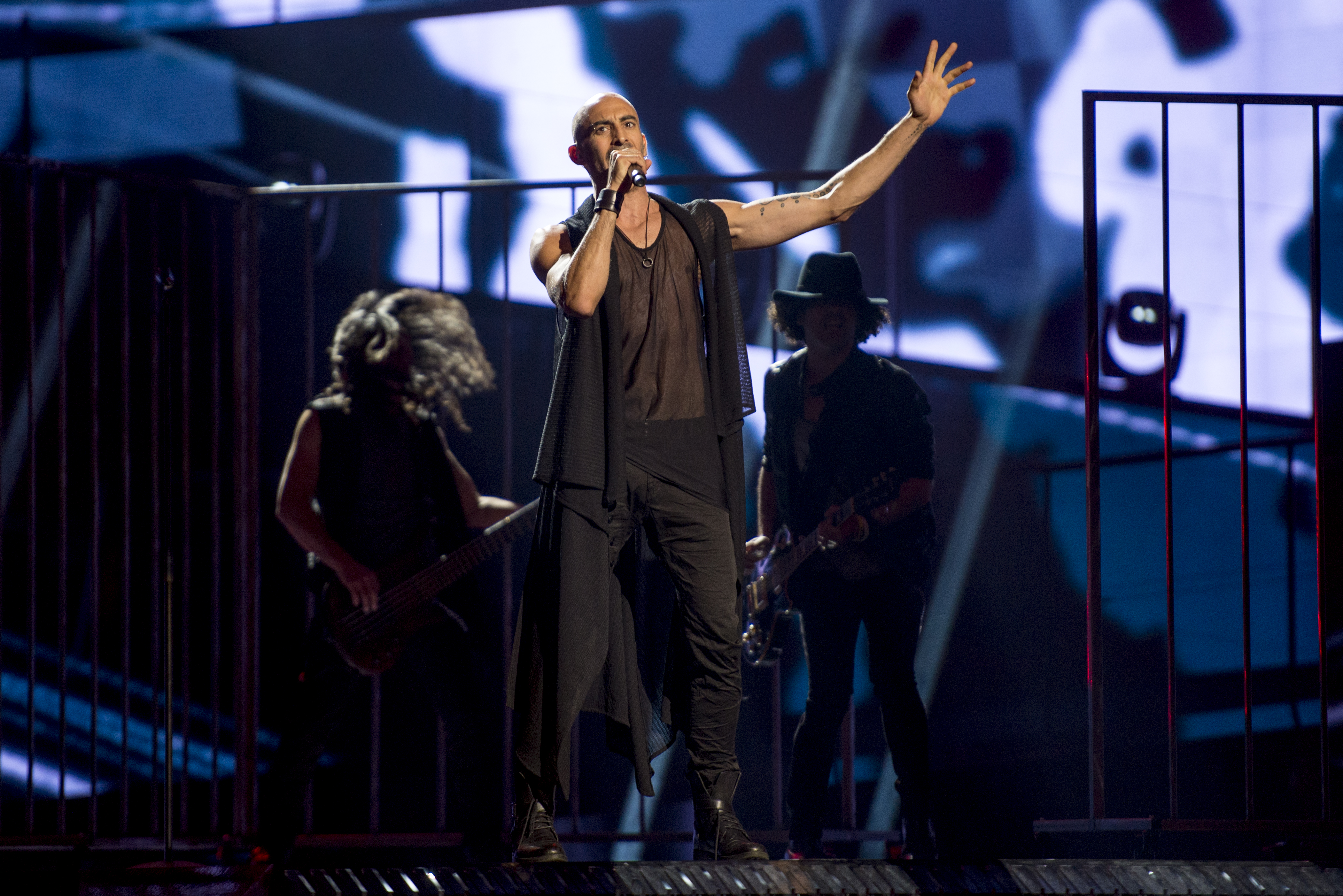 Minus One representing Cyprus with the song "Alter Ego" during a rehearsal before the first semi final of the Eurovision Song Contest 2016 in Stockholm. (Help translate this text)